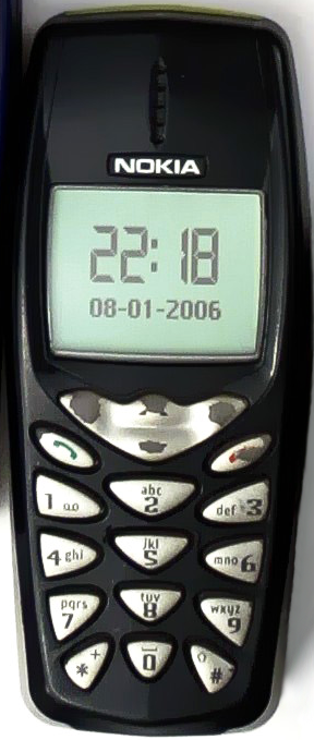 Nokia 3510 mobile phone